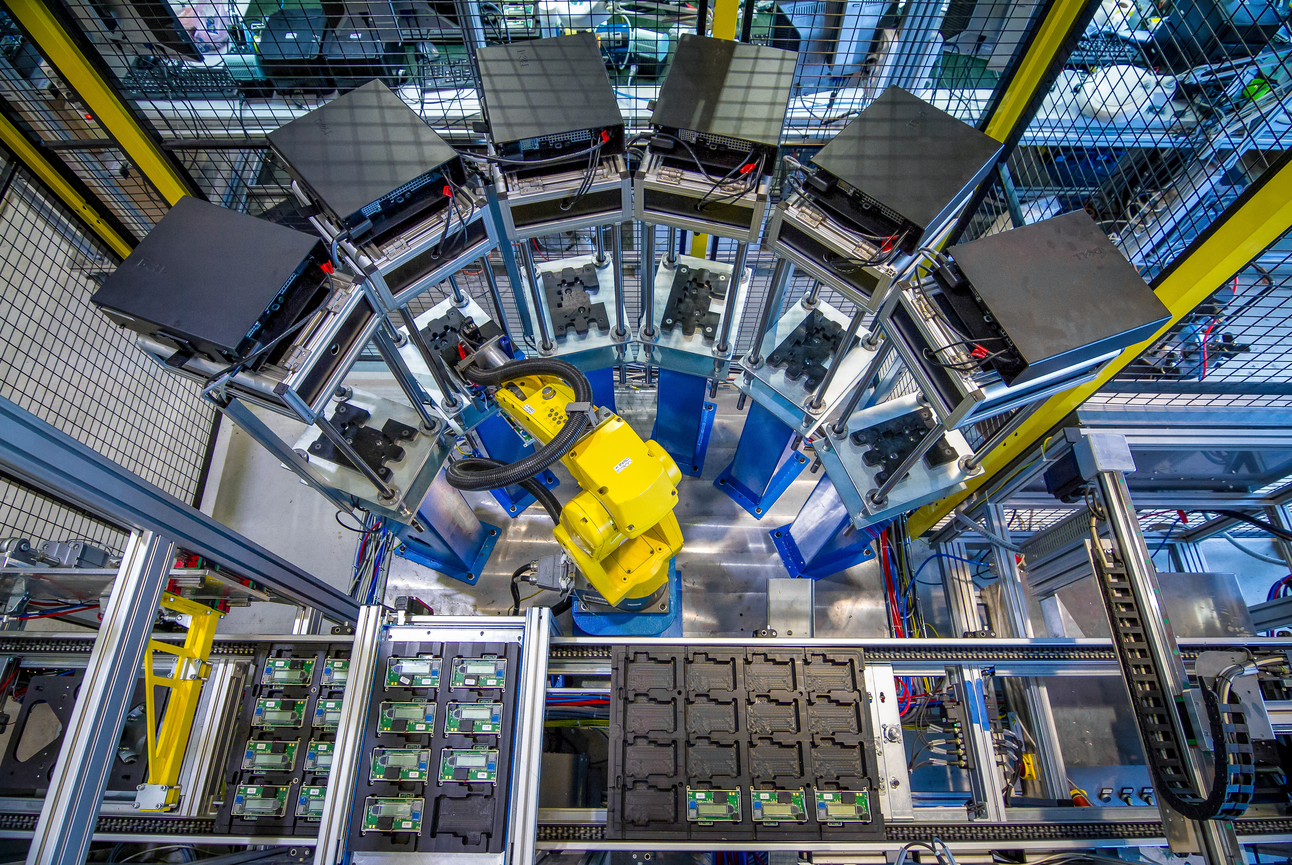 Production of IoT Data Loggers